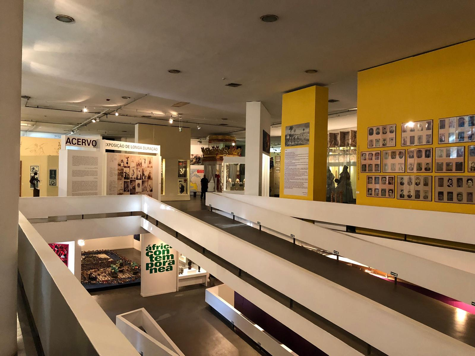 Museu Afro Brasil - interior gallery. May 2018